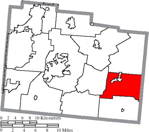 Map of the municipal and township boundaries of Greene County, Ohio, United States, as of the 2000 census, with the location of Silvercreek Township highlighted. Township borders are shown only in unincorporated areas in order to differentiate incorporated and unincorporated areas more clearly.